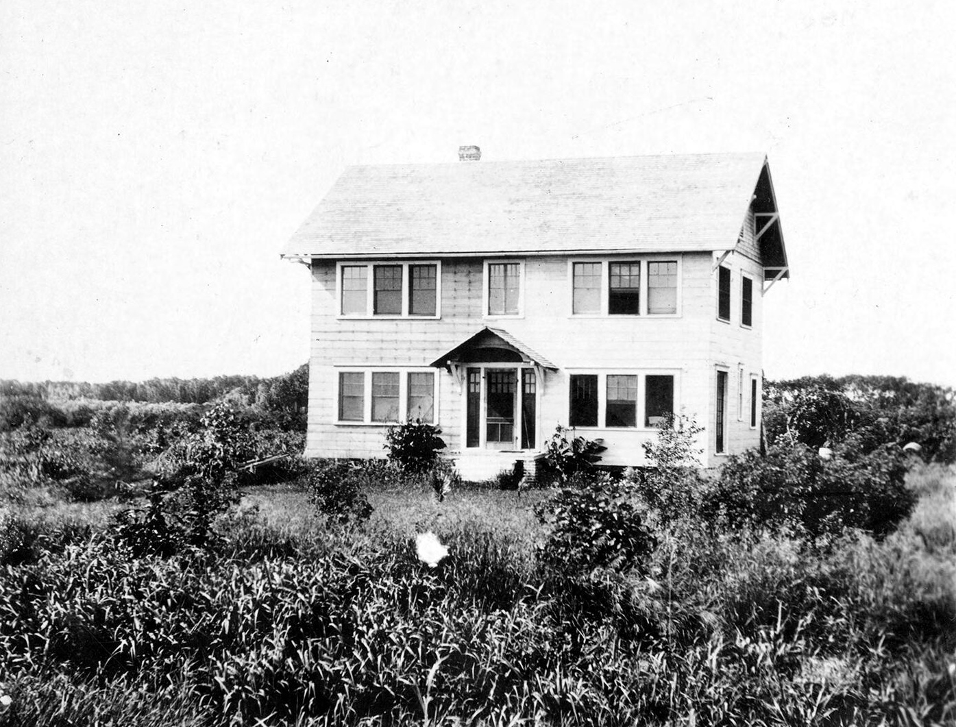 September 9, 1916 photograph of the house of Thomas E. Will, the founder of Okeelanta, Florida, the Everglades' first planned community, on the North New River Canal in Okeelanta.